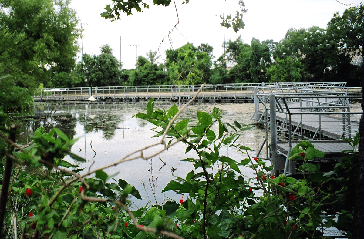 The Wetlands Boardwalk at Aquarena Springs in San Marcos, Texas, United States.